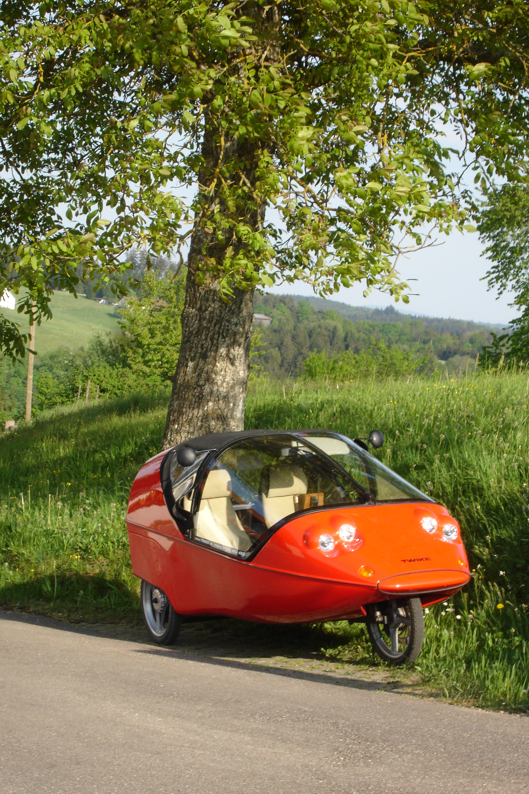 Photo of my Twike Active in early summer 2007, not edited